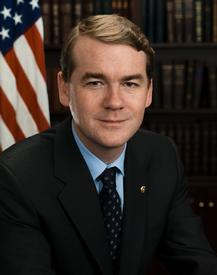 Official photo of Senator Michael Bennet (D-CO).